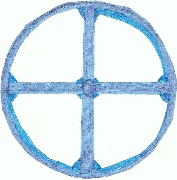 El símbolo del punto de la fortuna en astrología. Es azul y es un círculo con una cruz en el centro